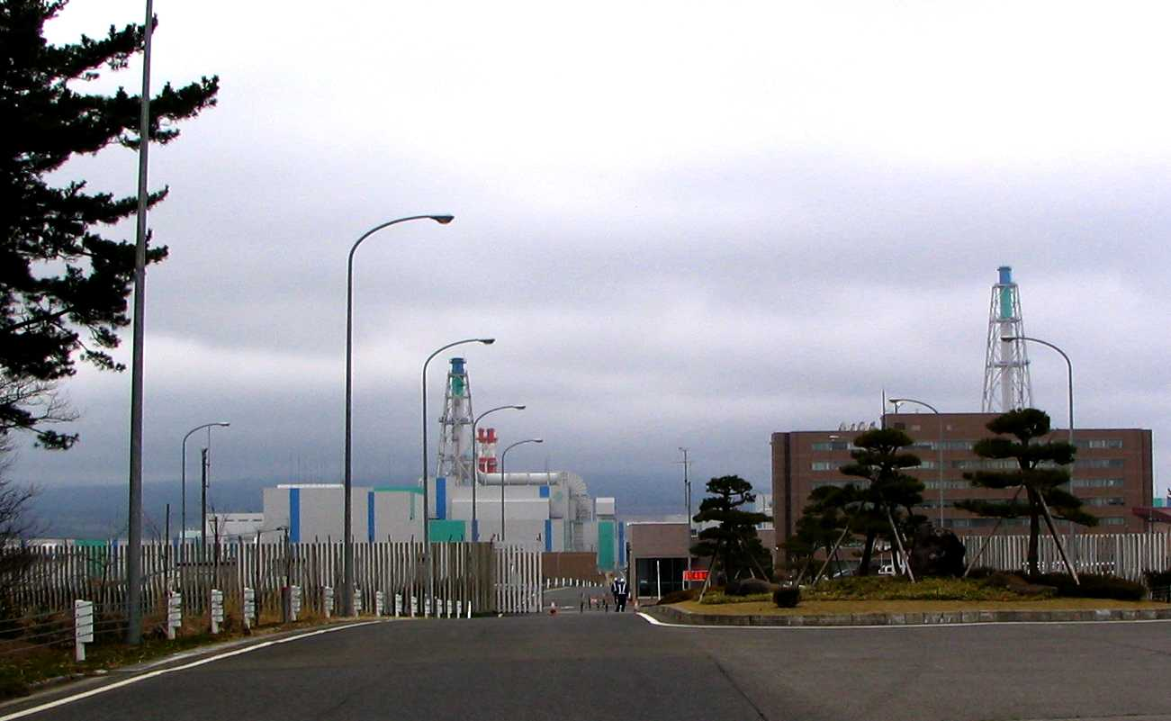 Rokkasho Reprocessing Plant Main Gate in Japan Aomori